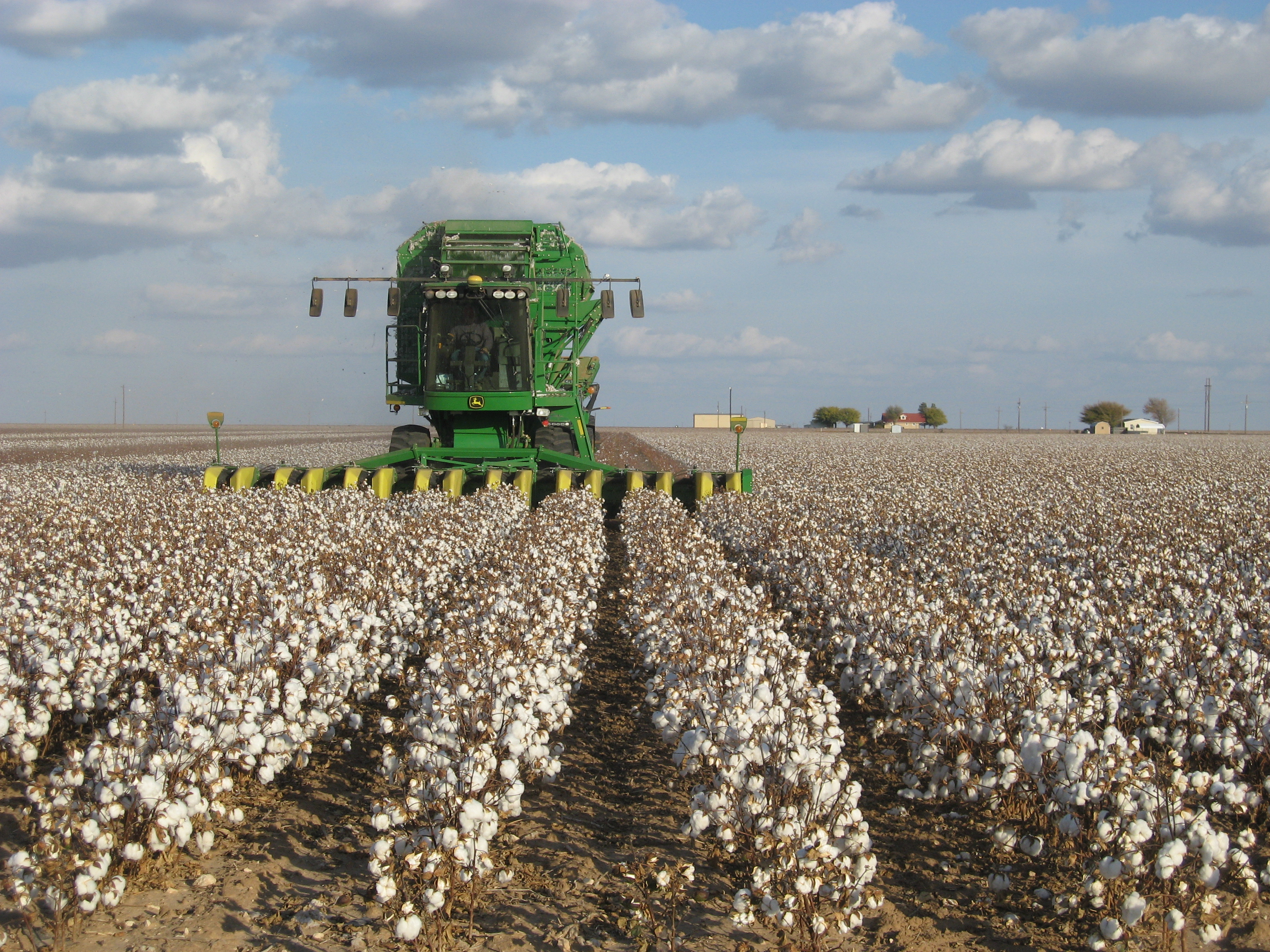 A John Deere cotton harvester at work in a cotton field (somewhere in the USA presumably)